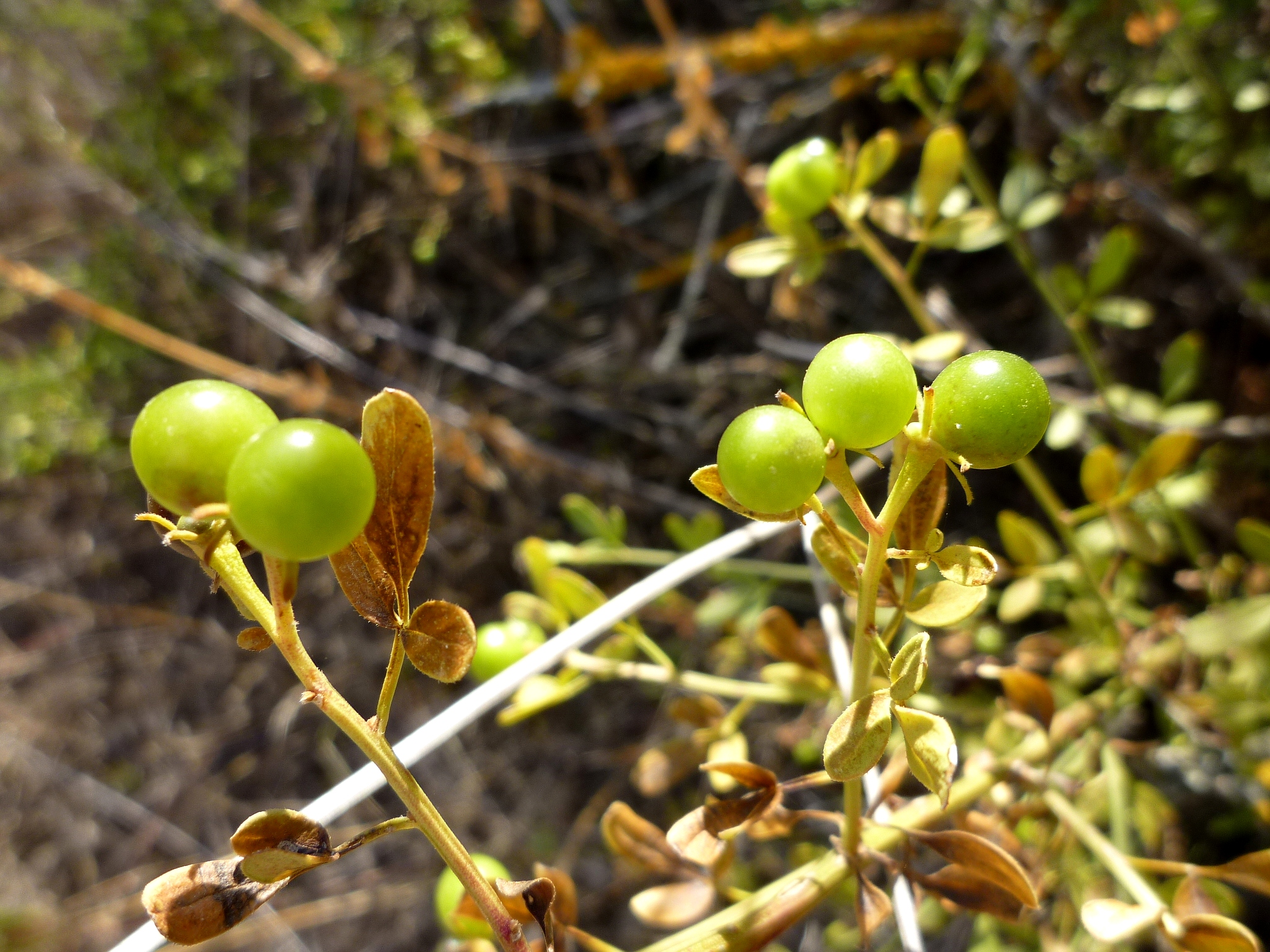 Jasminum fruticans. In Torà (Segarra-Catalunya). To 590 m. altitude